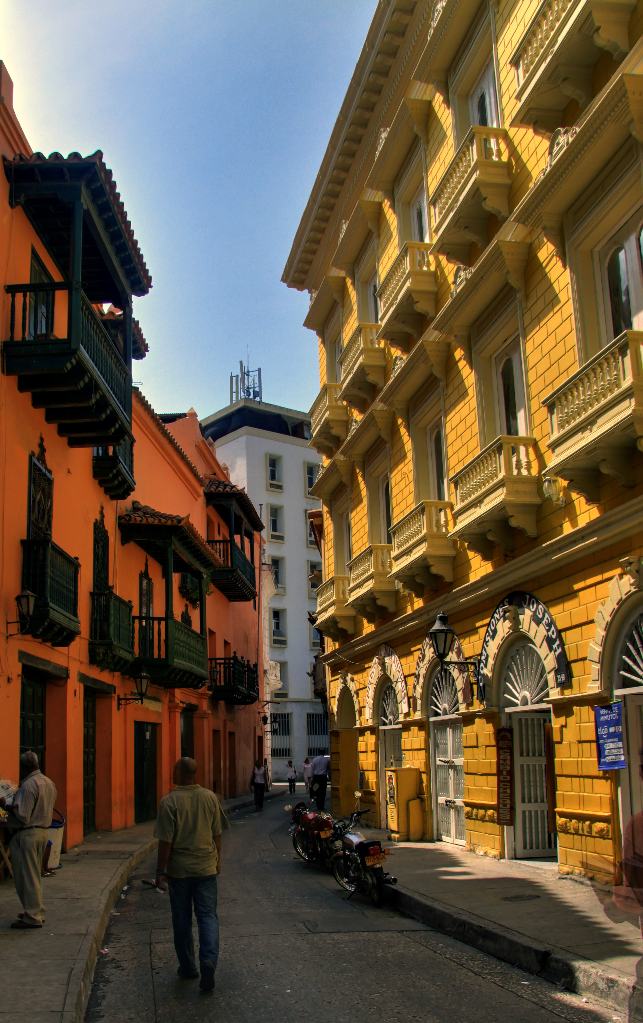 Please, have this description accessible to all by translating it in different languages.